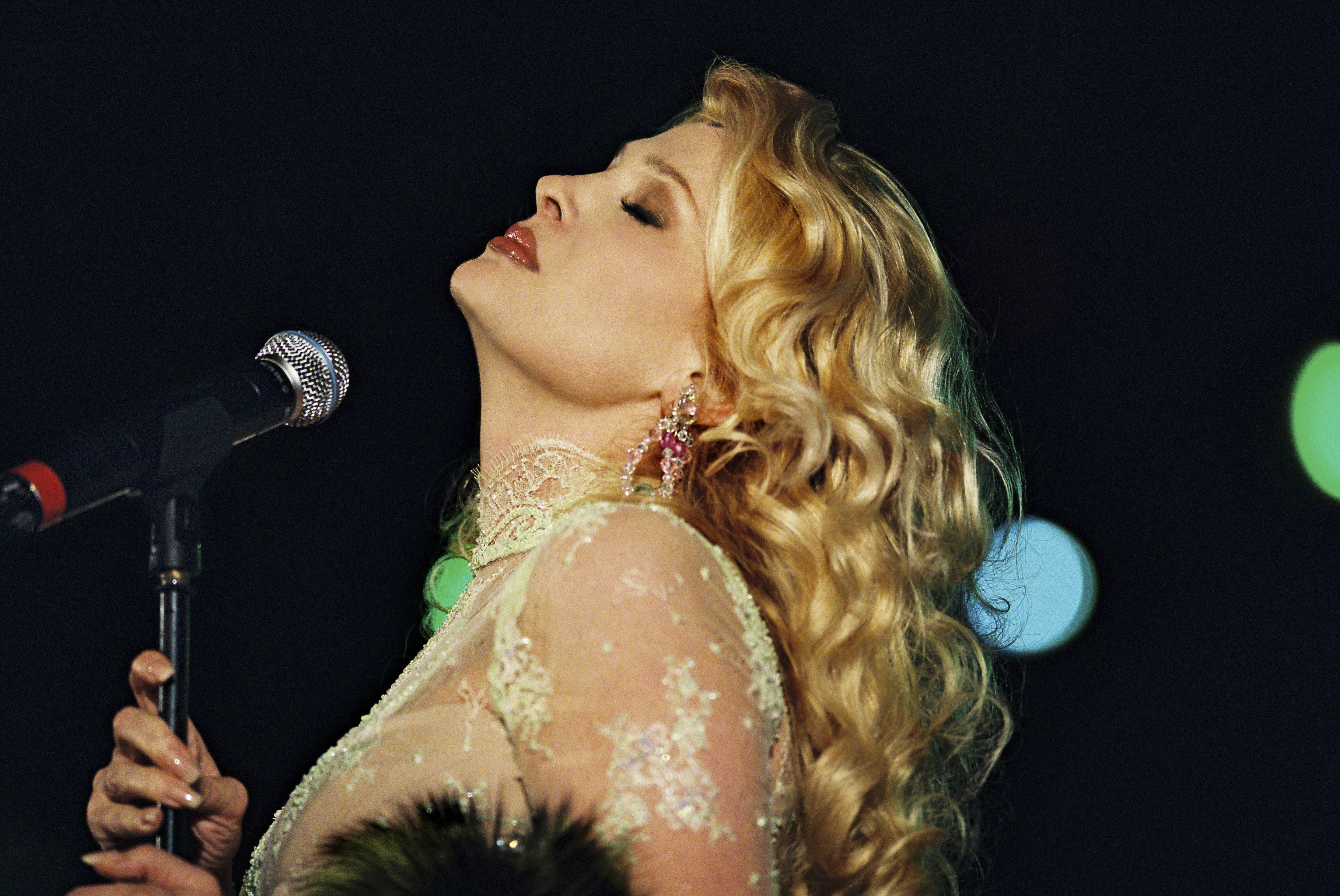 Helena Blagne, slovenian singer